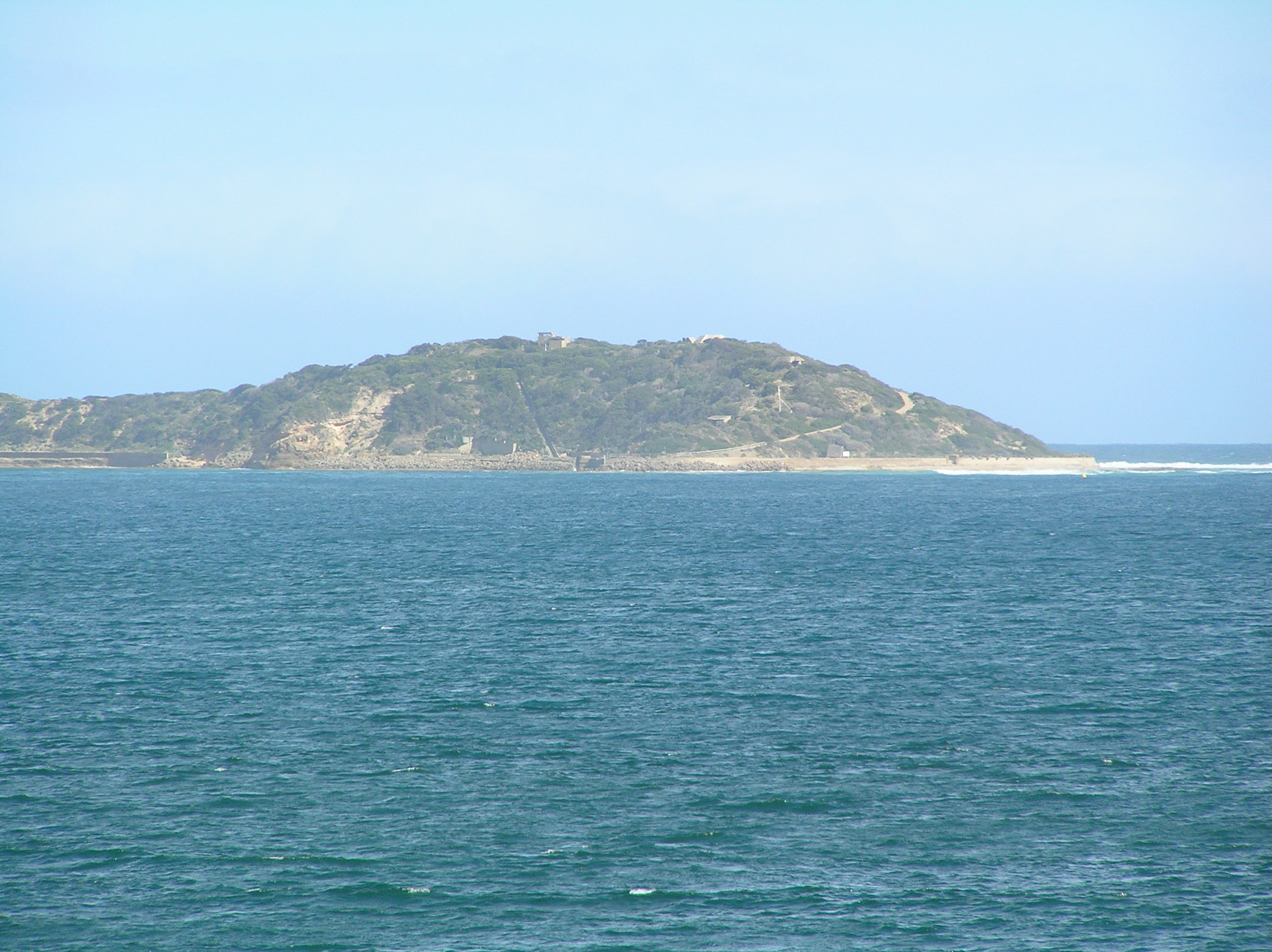 View of Point Nepean from the Queenscliff Harbour Tower.